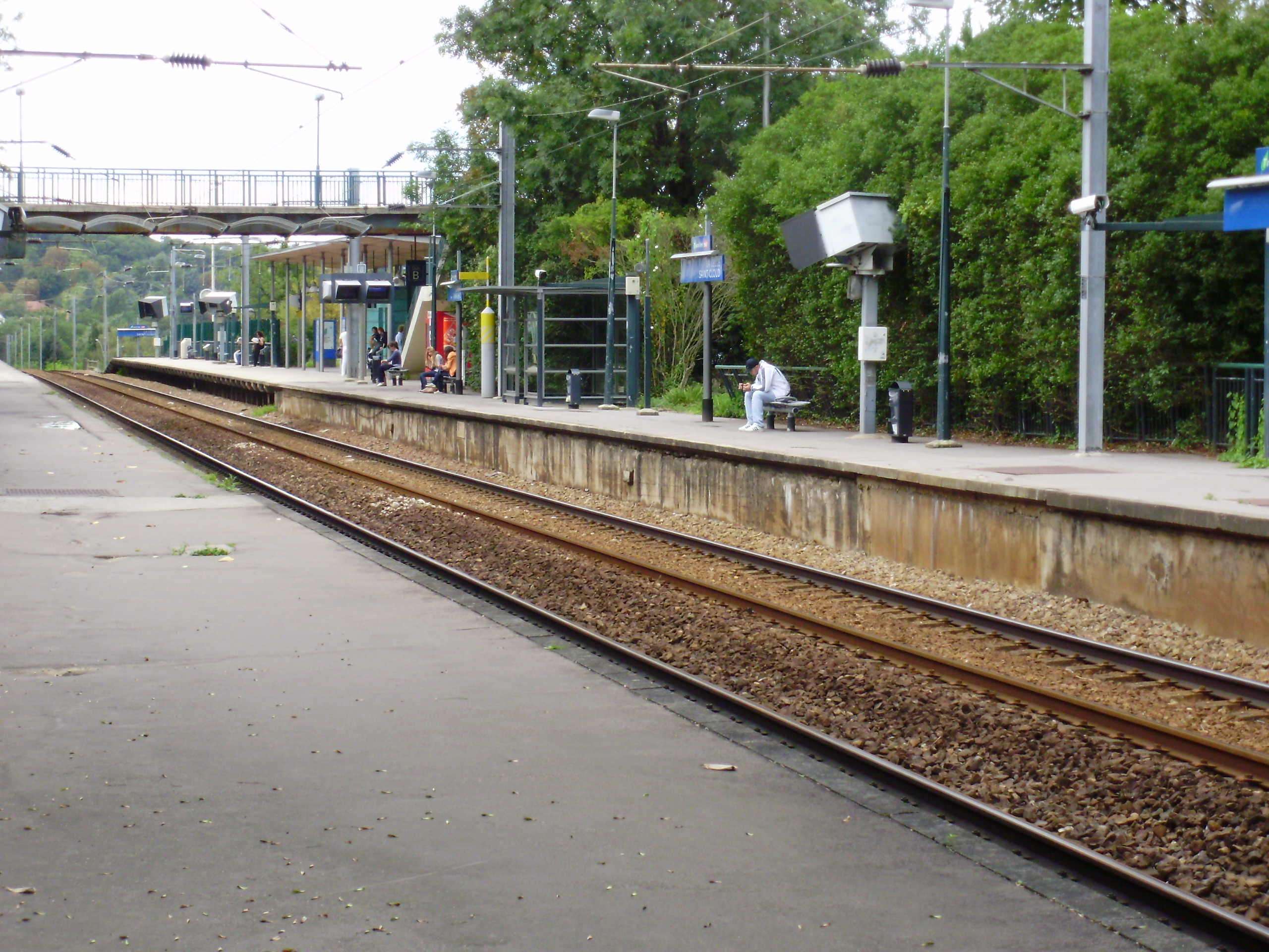 La Celle-Saint-Cloud station, Yvelines, France (view towards Saint-Nom-la-Bretèche from the other extremity of the platform)